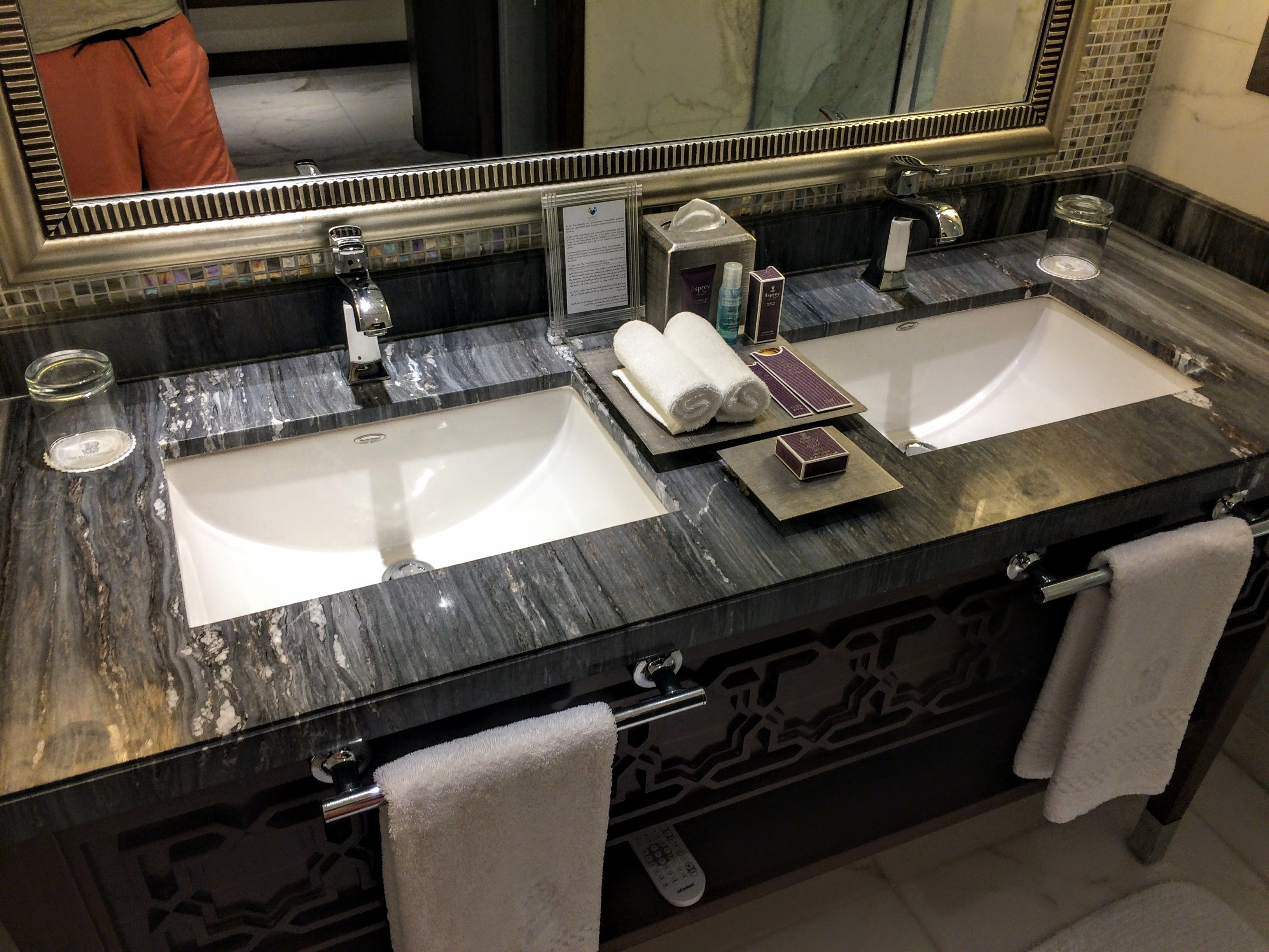 Double sink made from marble